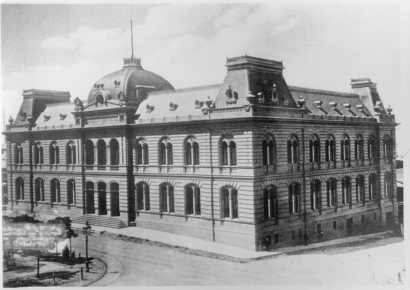 The old Post Office building of Buenos Aires, designed by Sweden Arq. Carl Kihlberg (1873-78). The building was incorporated in 1886 into the Casa Rosada, seat of the Argentine Government.